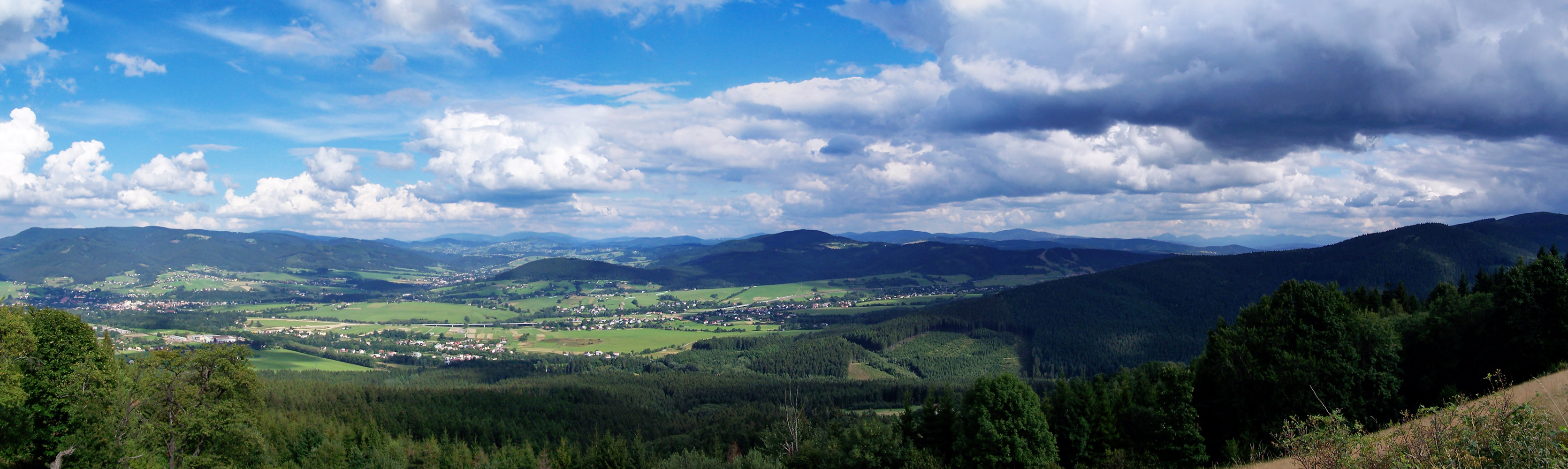 Panorama of the Silesian Beskids from the Czech side, Czech Republic